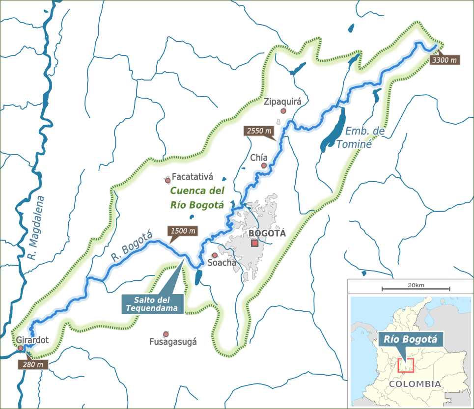 Map of Bogotá River and its drainage basin